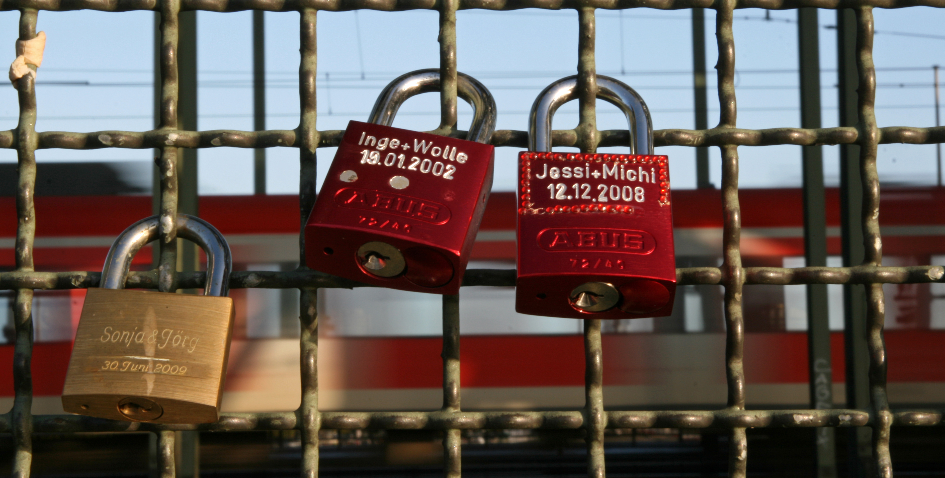 Love padlocks at Hohenzollernbrücke, Cologne